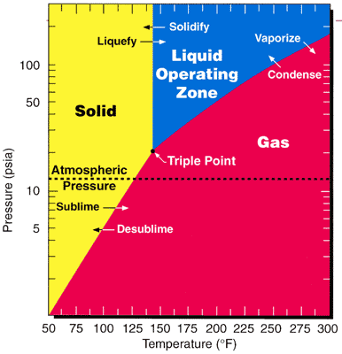 Uranium hexafluoride phase diagram